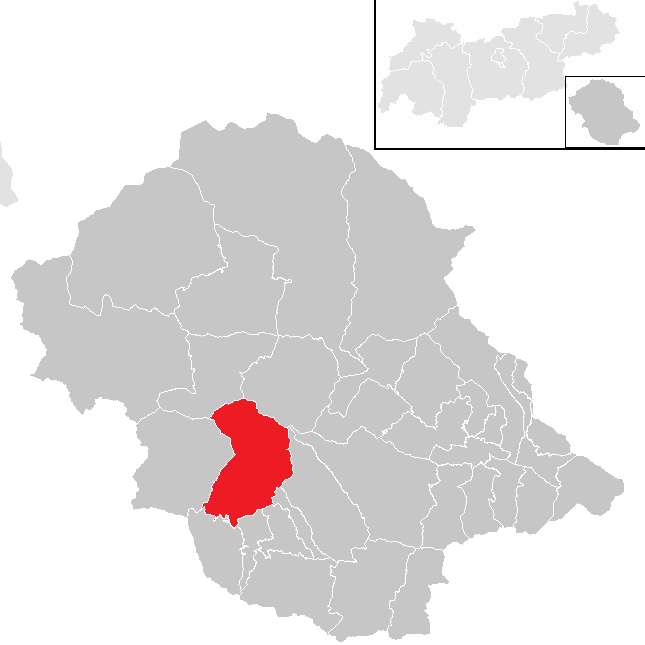 District Lienz